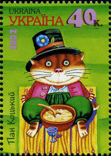 An Ukrainian stamp: the Ukrainian folk tale "Pan Kotskyi"